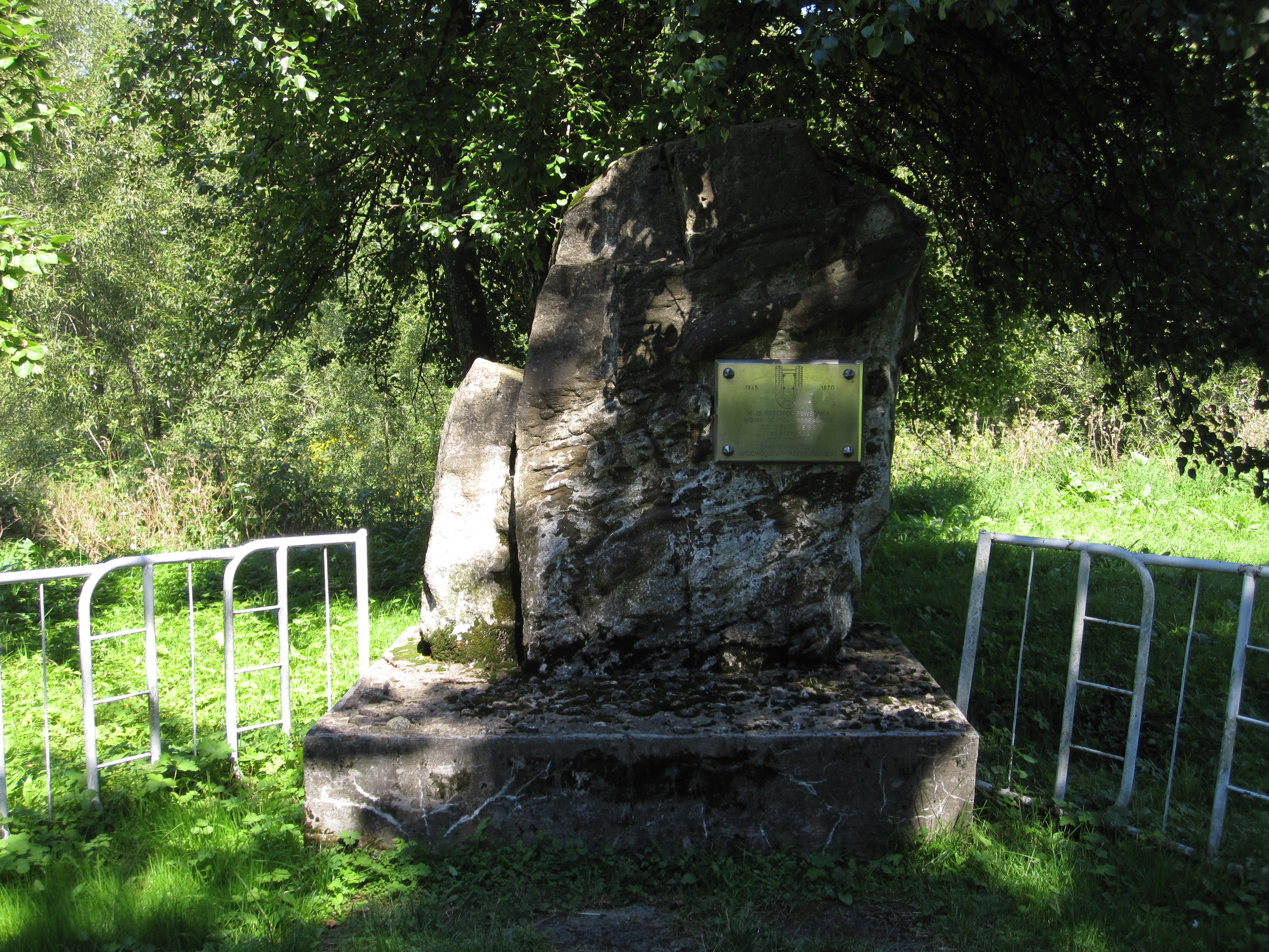 Wetlina, a monument commemorating the 25 anniversary of creation of Border Troops